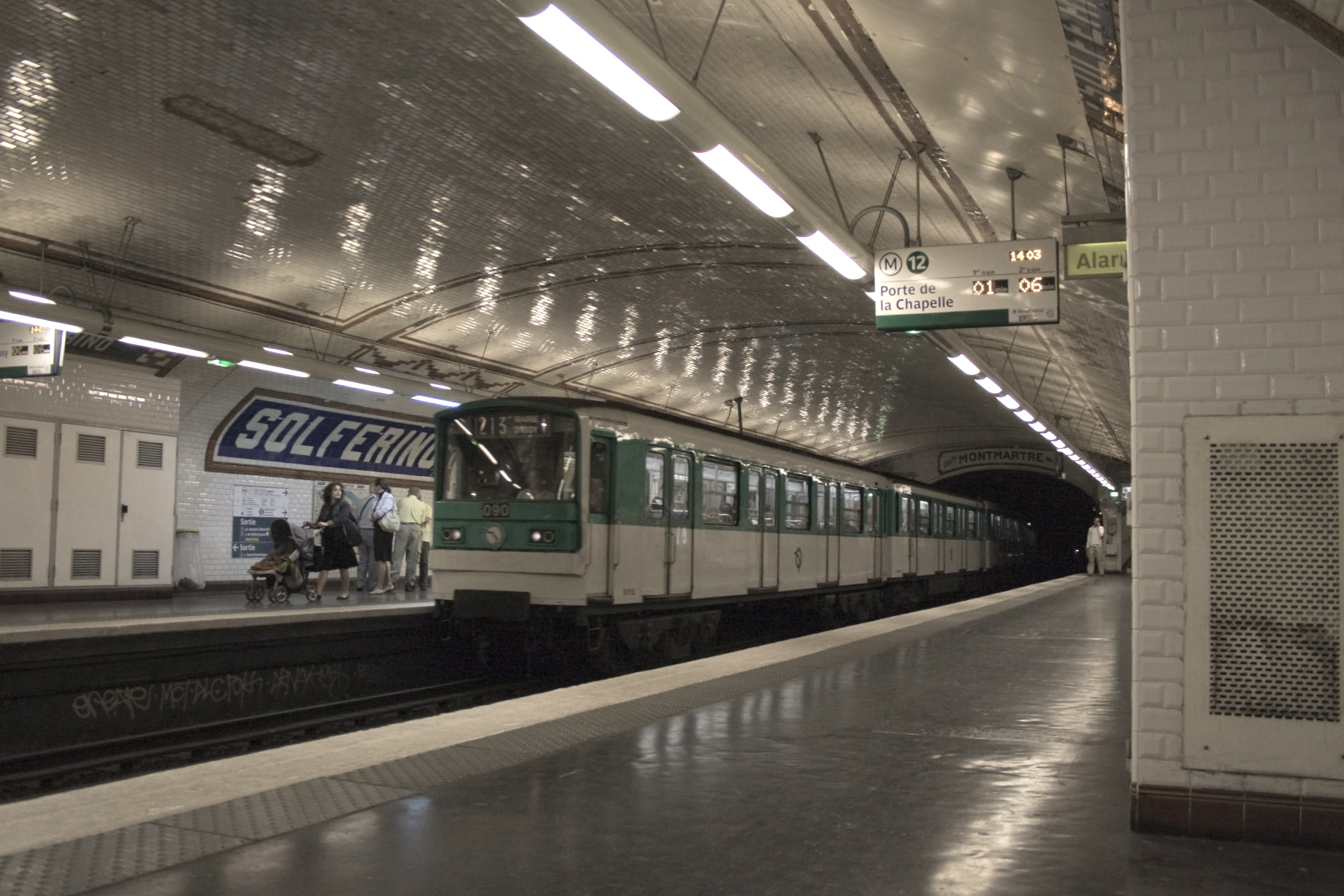 MF 67 on Solférino station (Paris Métro)